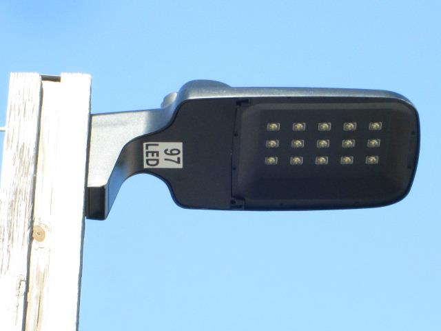 History of street lighting: Leotek Arieta AR13 (40-150 watts)